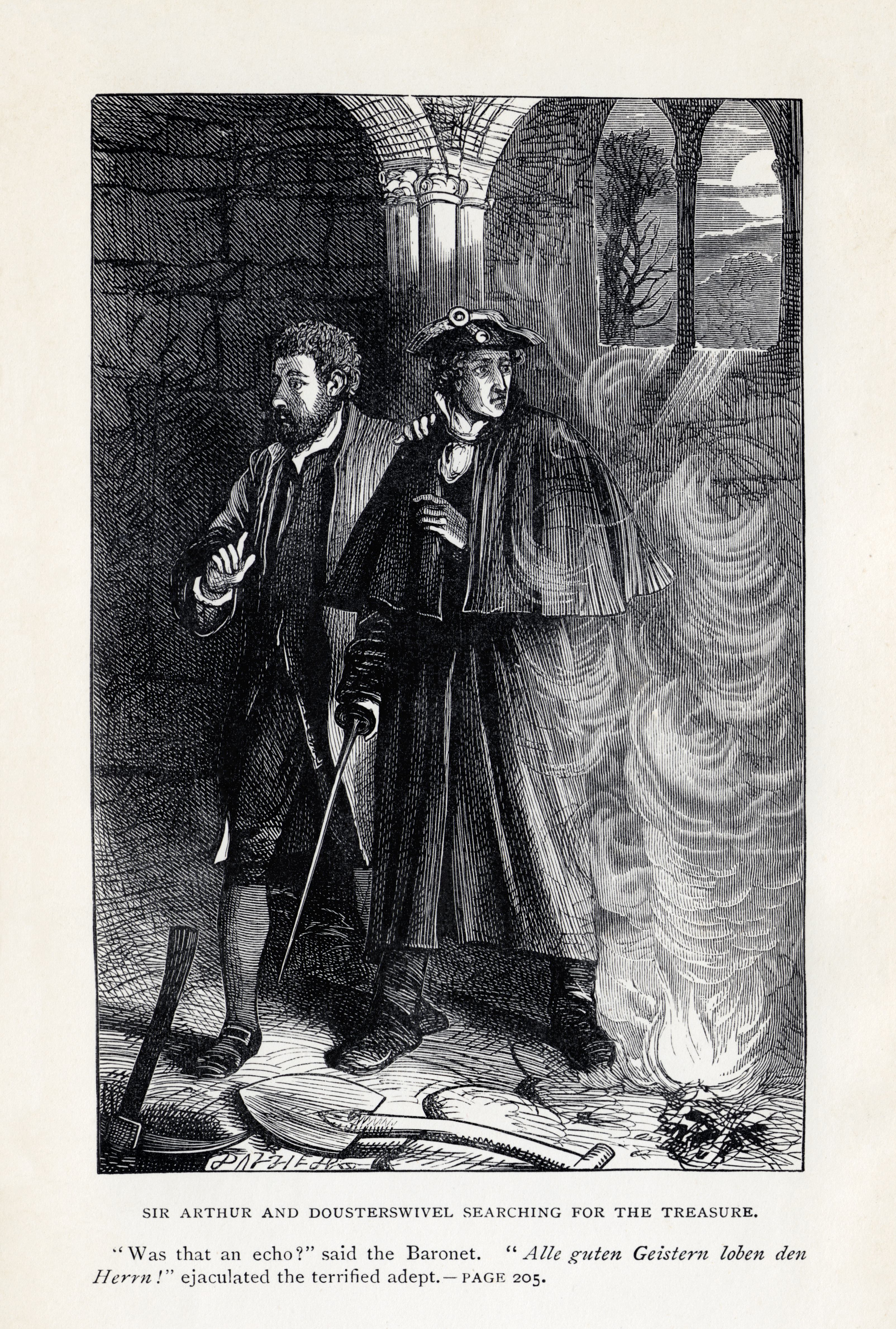 "Sir Arthur and Dousterswivel Searching for the Treasure", by the Dalziel Brothers, after Sir Walter Scott's The Antiquary